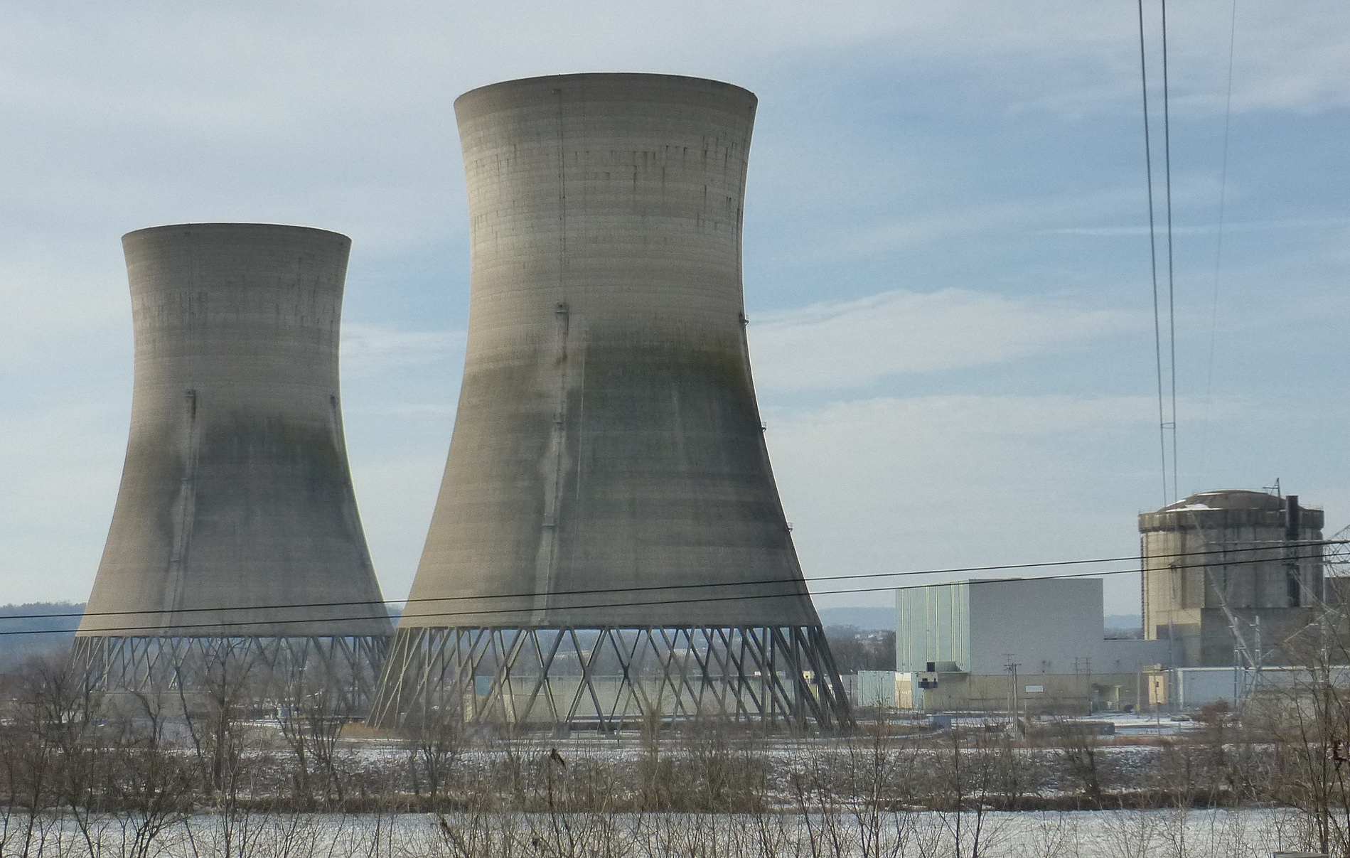 The unit 2 of Three Mile Island Nuclear Generating Station closed since the accident in 1979. The cooling towers on the left. The spent fuel pool and containment building of the reactor on the right.